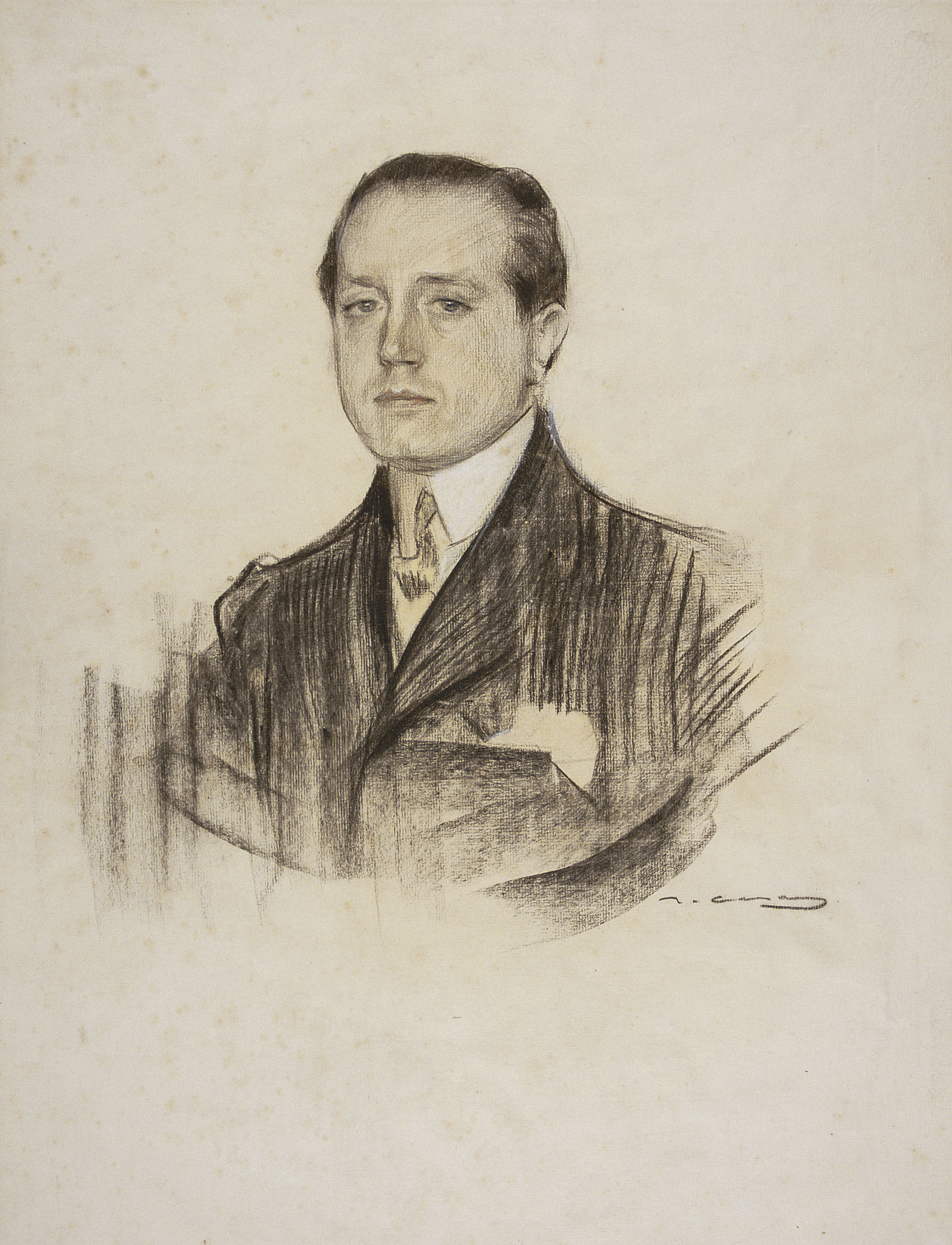 Portrait by Ramon Casas conserved at MNAC in Barcelona.